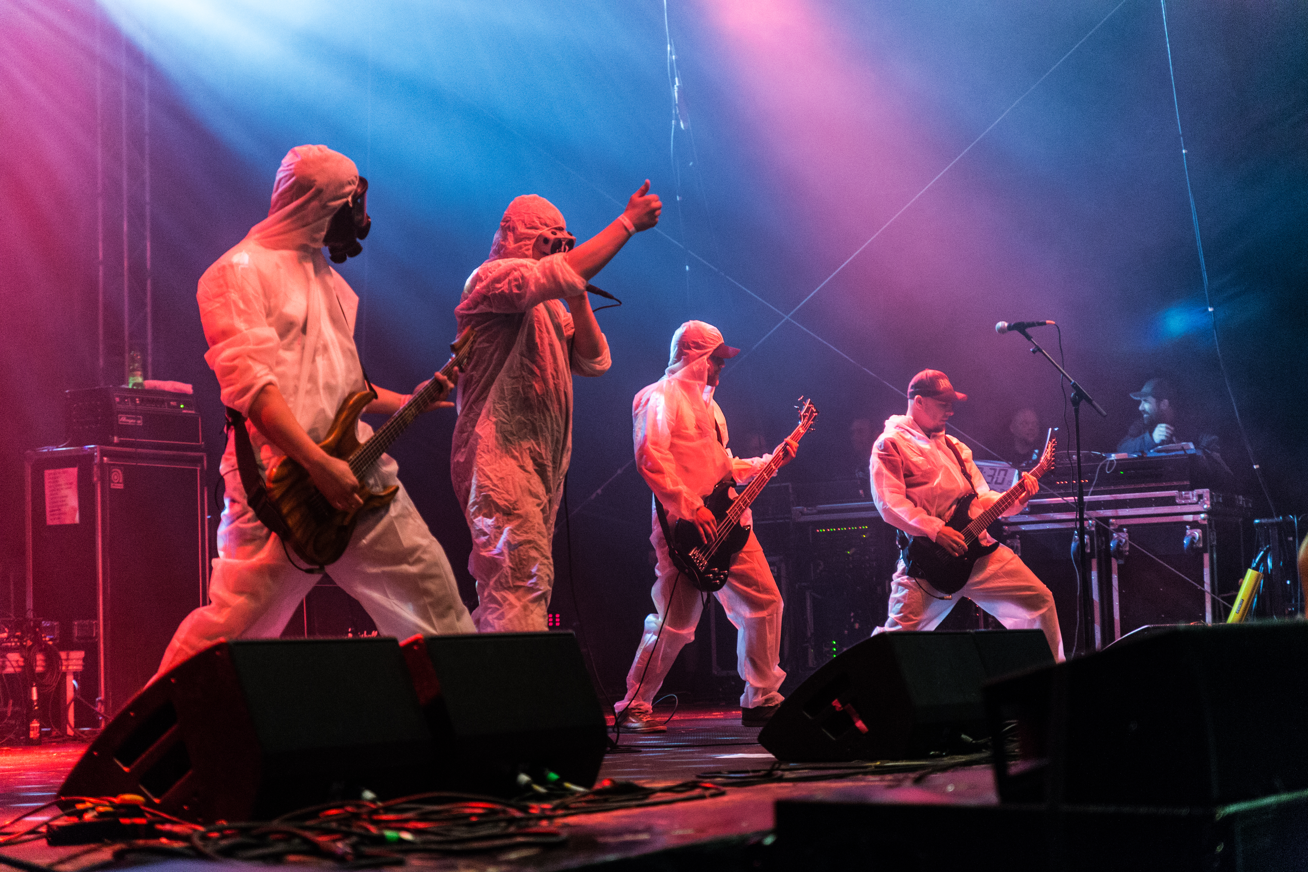 The Czech grindcore band Gutalax at the Metal Frenzy 2017 in Gardelegen/Germany.